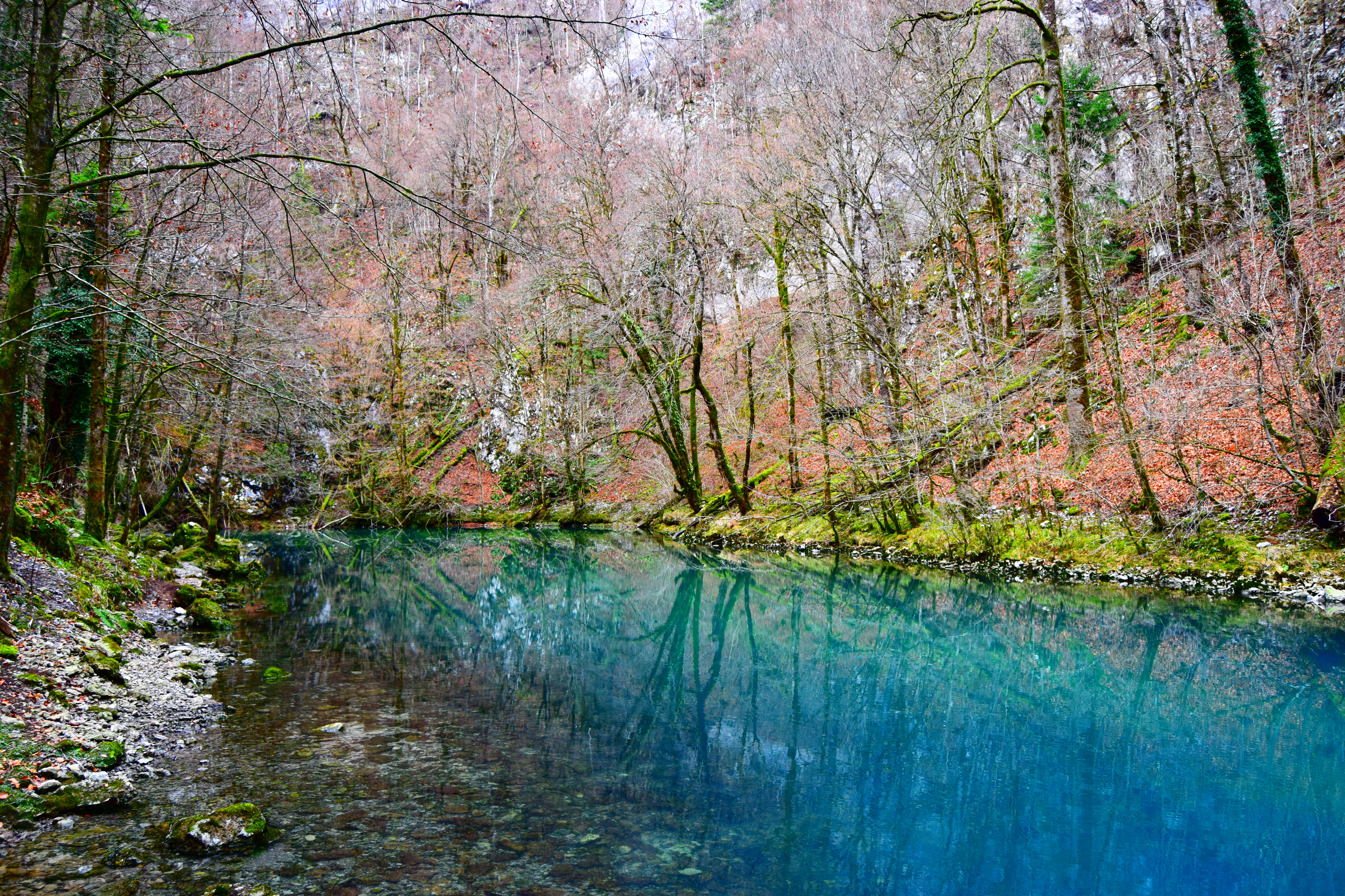 The spring of river Kupa in national park Risnjak.